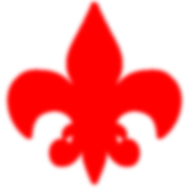 Illustration of a gobo effect, obtained by projecting light through a thin circular plate with holes cut in it.